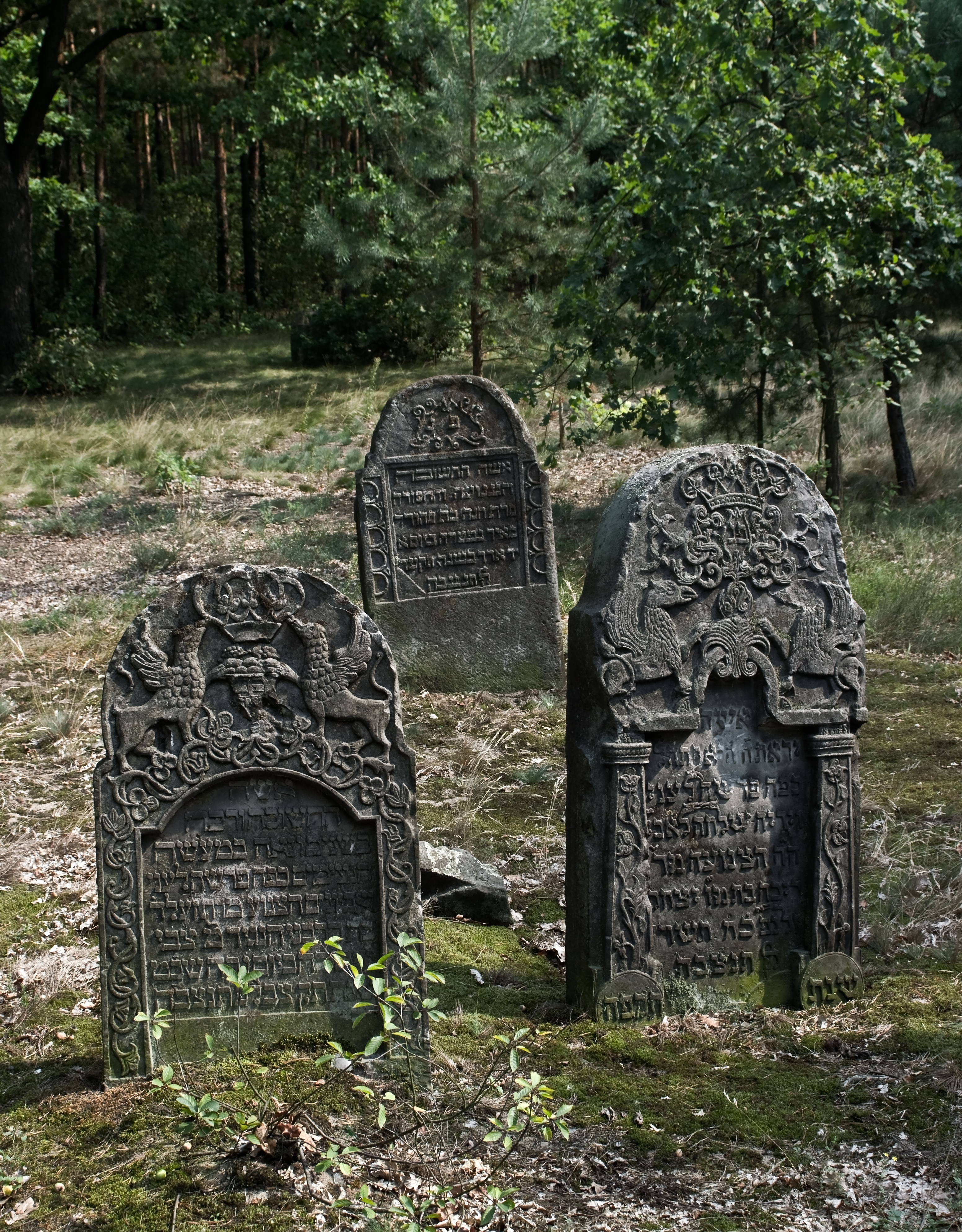 Jewish cemetery in Przytyk